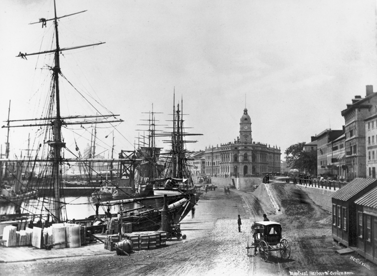 Photograph, Montreal harbour near Custom House, QC, 1865-75, Alexander Henderson, Silver salts on paper mounted on card - Albumen process - 16 x 21 cm